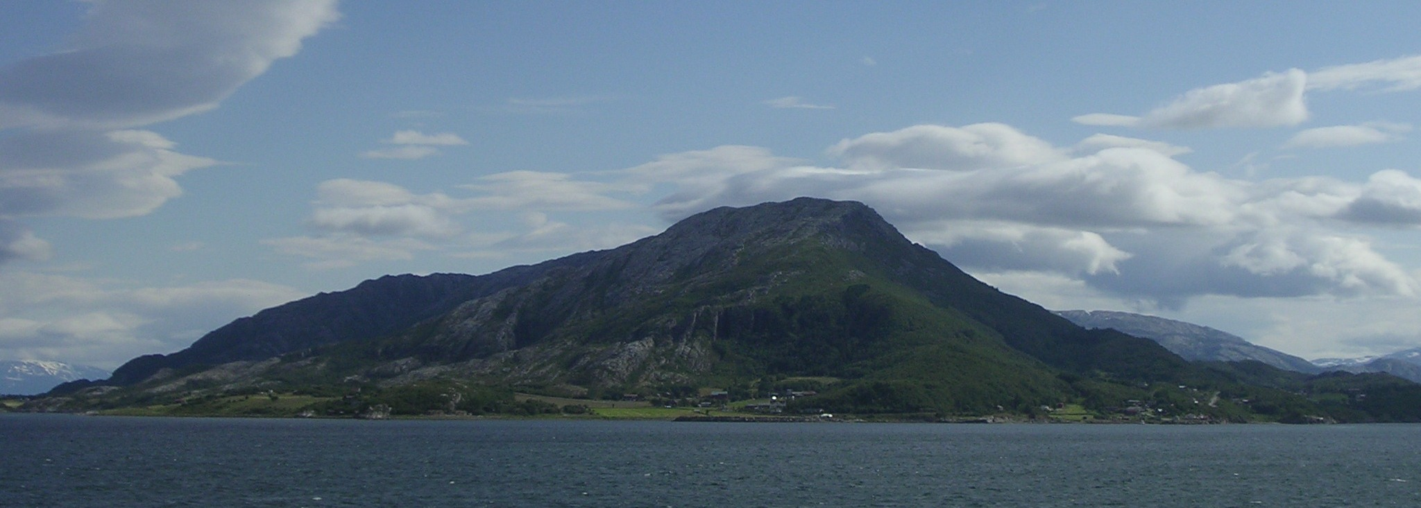 Angerneset, westmost point of Leirfjord